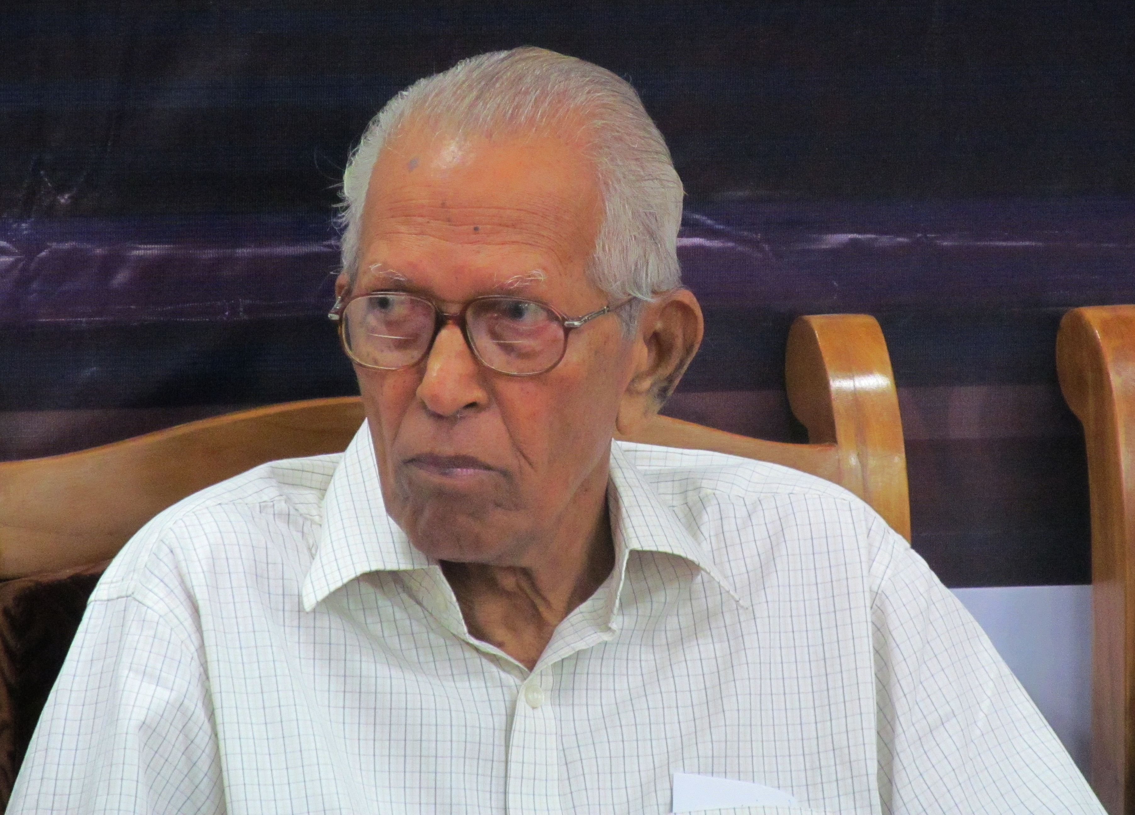 M. K. Sanu is a prominent Malayalam literary figure. He is a retired professor, critic, biographer, editor, translator, journalist, orator, social activist and humanist.